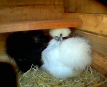 Photo of two Silkie hens, Yuriko (black hen on the left) and Bridget (white hen on the right).